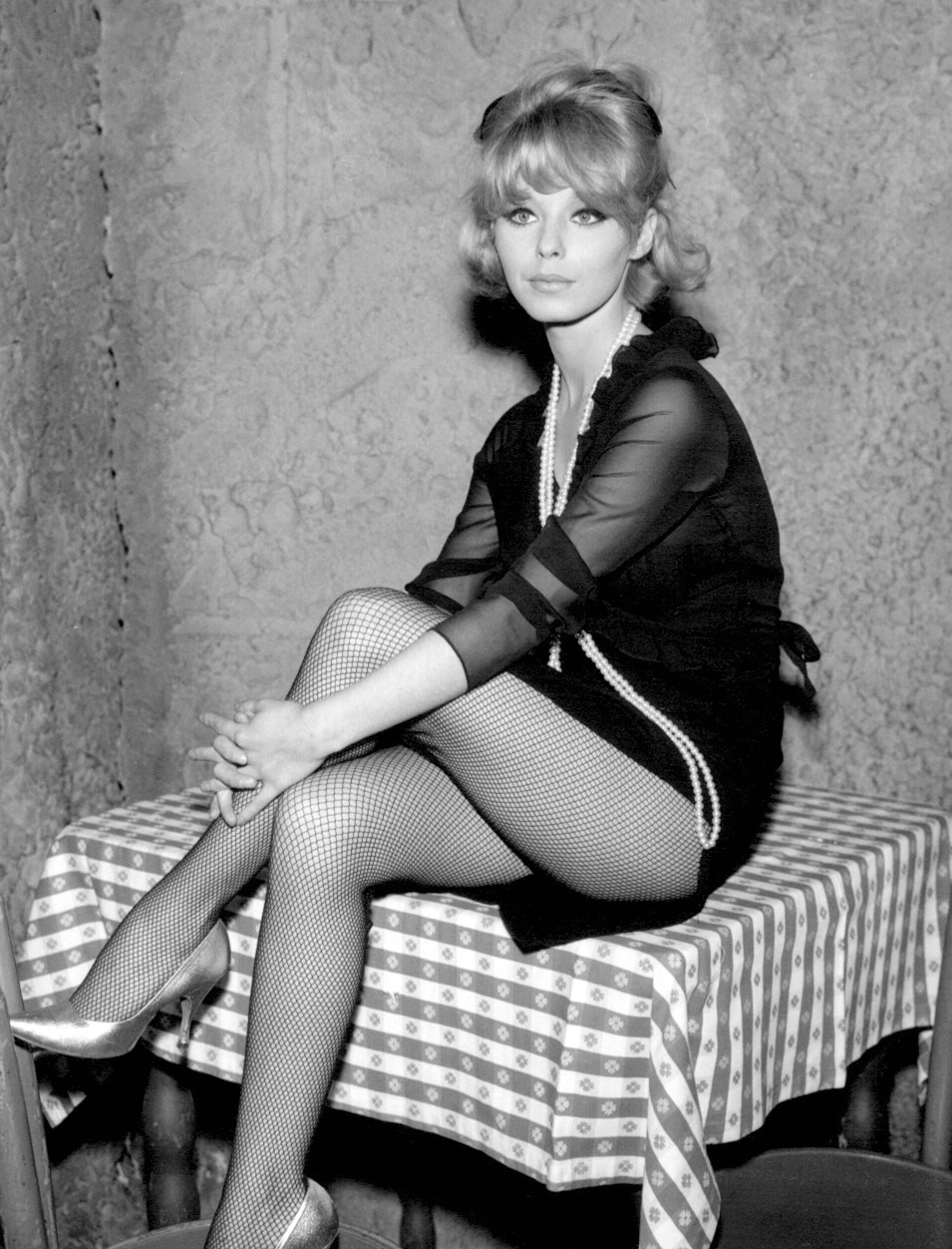 Photo of Jill Haworth as a guest star in the television series The Rogues.